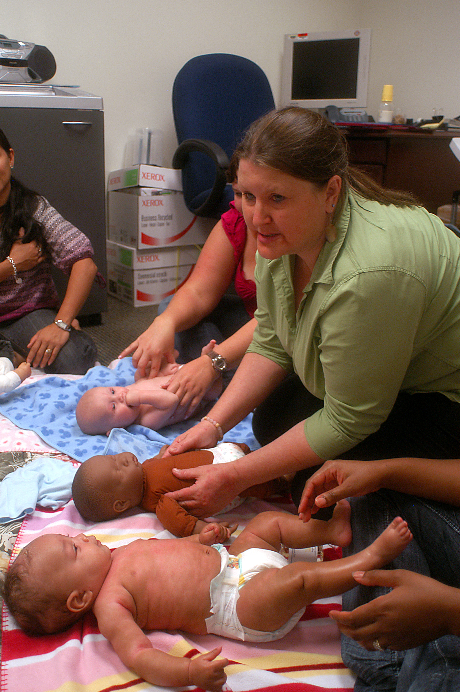 PEARL HARBOR (April 23, 2010) Mara MacDonald, from the Navy New Parent Support Home Visitation Program, demonstrates different massage techniques to a group of new mothers and their babies in an infant massage class. The program is administered by the Navy Region Hawaii Fleet & Family Support Center and assists new parents and expecting parents with home visits, information on parenting, referrals, support groups and nurturing skills. (U.S. Navy photo by Mass Communication Specialist 1st Class Jason Swink/Released)